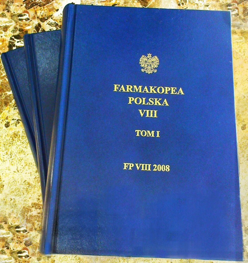 Polish Pharmacopoeia 8